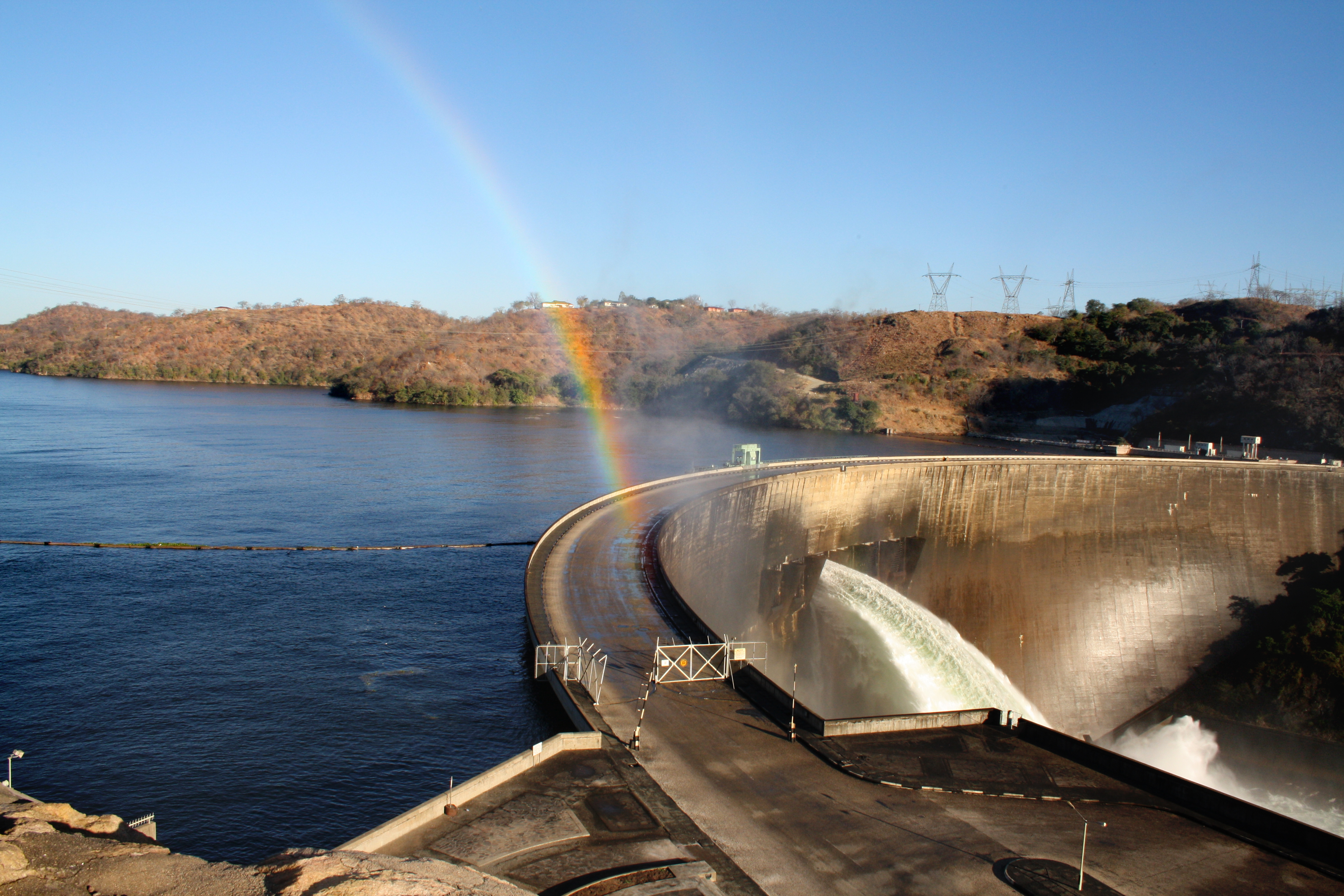 The passage from Zambia to Zimbabwe This is an image with the theme "Africa on the Move or Transport" from: Zimbabwe